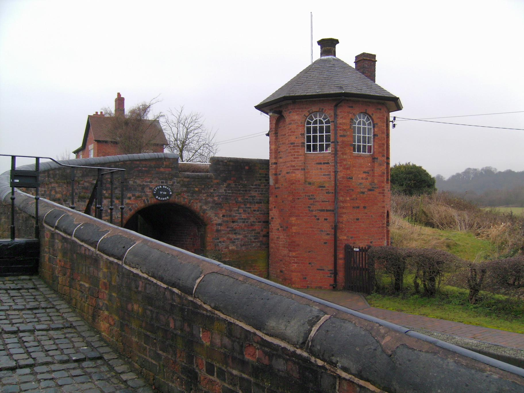 Toll House and upper bridge at the Bratch Locks, Wombourne, South Staffs., UK, on the Staffordshire and Worcestershire Canal